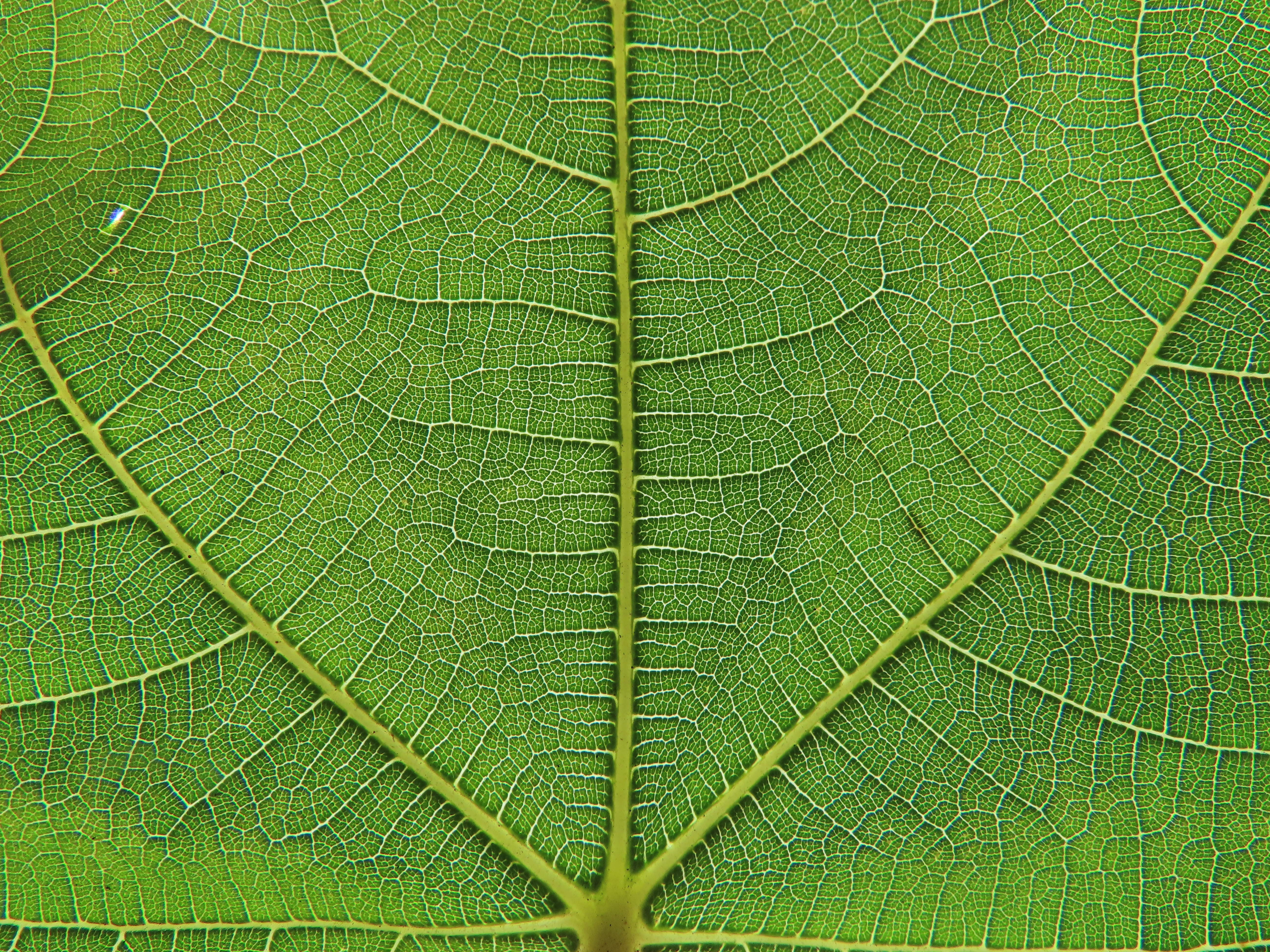 Reticulate veins in leaf of Ficus carica